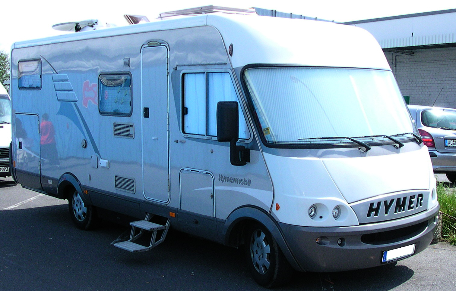 Hymermobil B SL mobile home